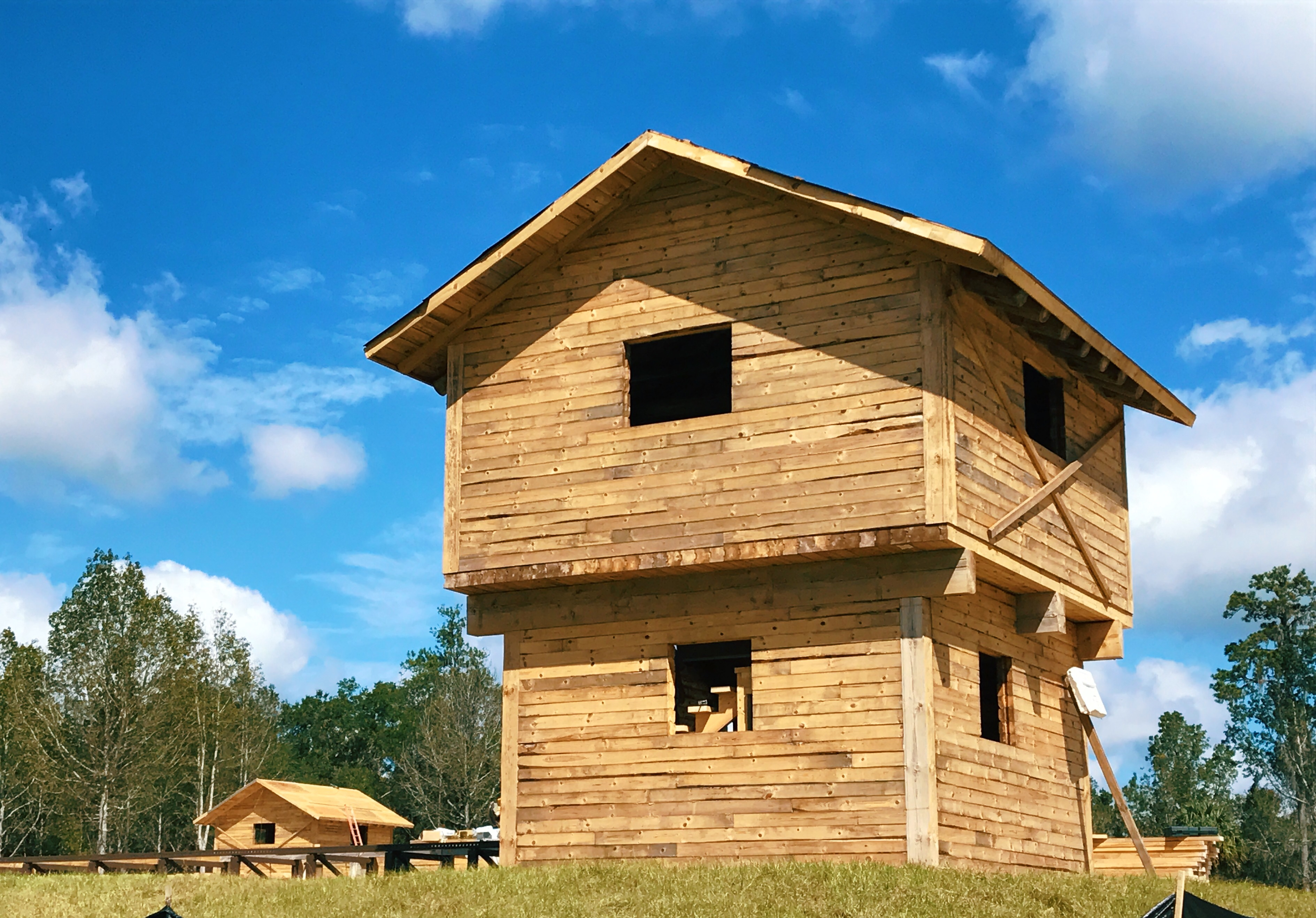 Fort King (also known as Camp King or Cantonment King) was a United States military fort in north central Florida, near what later developed as the city of Ocala.